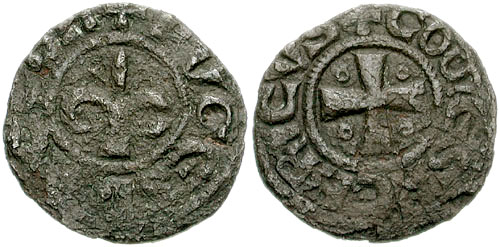 Crusaders, Latin Kingdom of Jerusalem. Henry of Champagne. 1192-1197. Æ Pugeoise (17mm, 1.09 g, 11h). +COMES HENRICVS (triple pellet stops), cross pattée, annulet in quarters +PVGES D ACCOH, fleur-de-lis. Metcalf, Crusades 199-200; CCS 33. Near VF, black-brown patina.